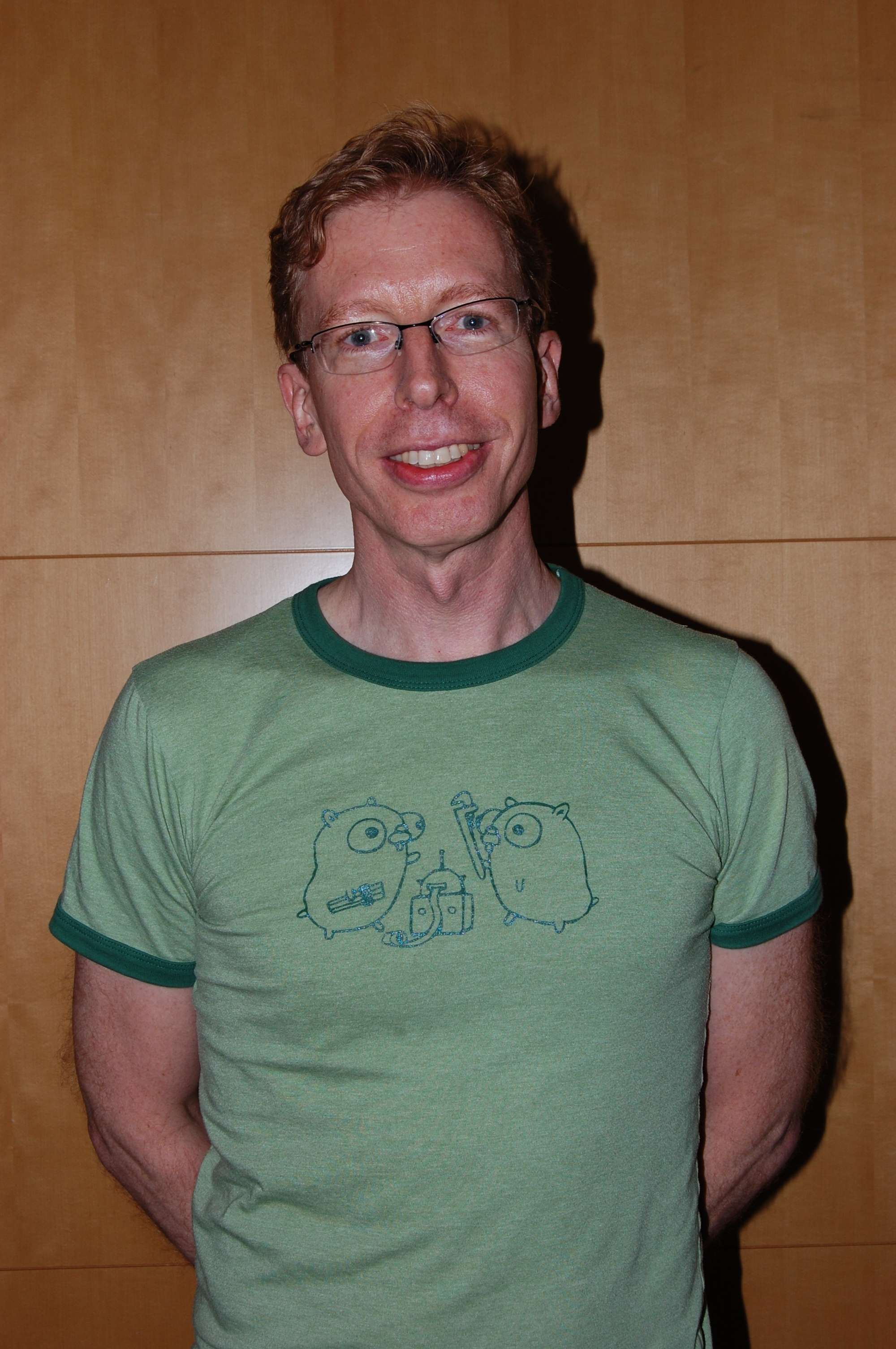 Robert Griesemer, one of creators of Go programming language, on ACCU Silicon Valley chapter meeting